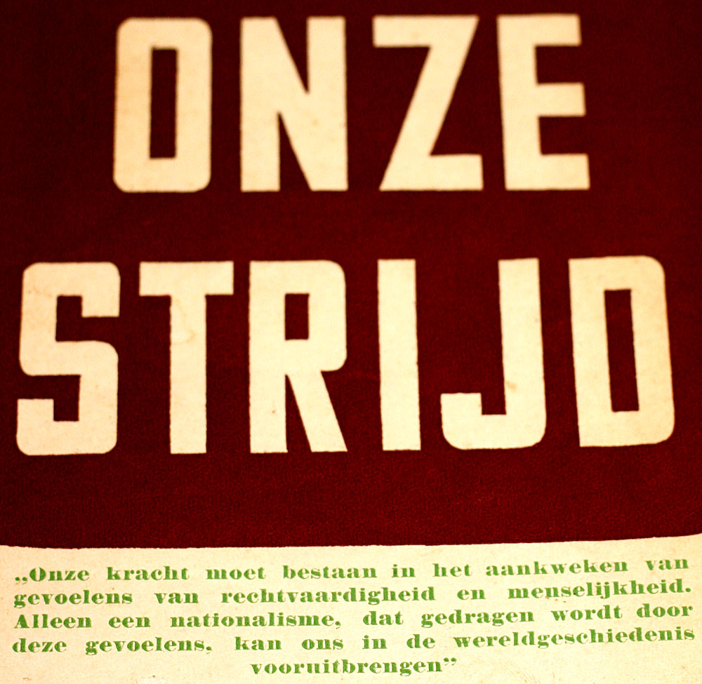 Soetan Sjahrir's "Onze Strijd" Book Cover Close Up. (antiquarian specimen) First edition of 9,000 pamphlets and second edition of an additional 8,000 pamphlets printed in Holland by ‘Cloeck & Moedigh’published in the Dutch language by Uitgevery ‘Vrij Nederland’Amsterdam under the supervision of ‘Perhimpoenan Indonesia’ in 1946.